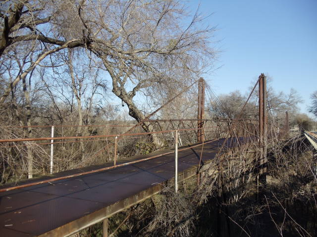 Bluff Dale Suspension Bridge